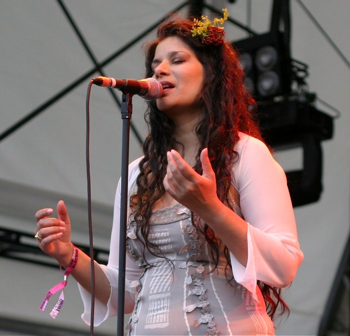 'The Big Chill' 2008: Performing in 'The Imagined Village' Sheila Chandra is pictured here, one of a series of images from 'The Big Chill' by photographer Mark Bennett . The most beautiful smile I have ever been blessed to see. From Mark Bennett: This is an image from a couple of days ago at 'The Big Chill', a wondrous day full of the unexpected and beautiful. Unforgettable. Whilst I was working there 'The Imagined Village' played the main stage and stopped me in my tracks (from rushing about photographing all the stages ... like a madman, lol) ... here is the beautiful Sheila Chandra from that image set.